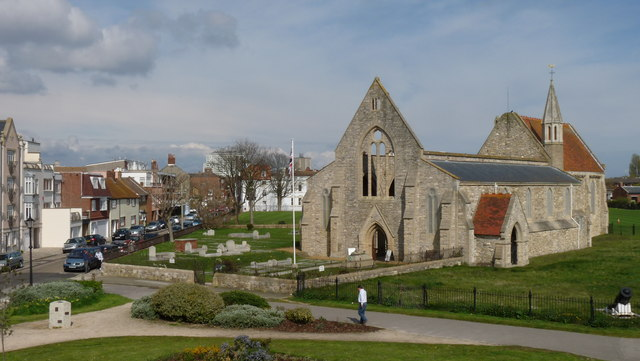 The Garrison Church Badly damaged during the Blitz of WW2.